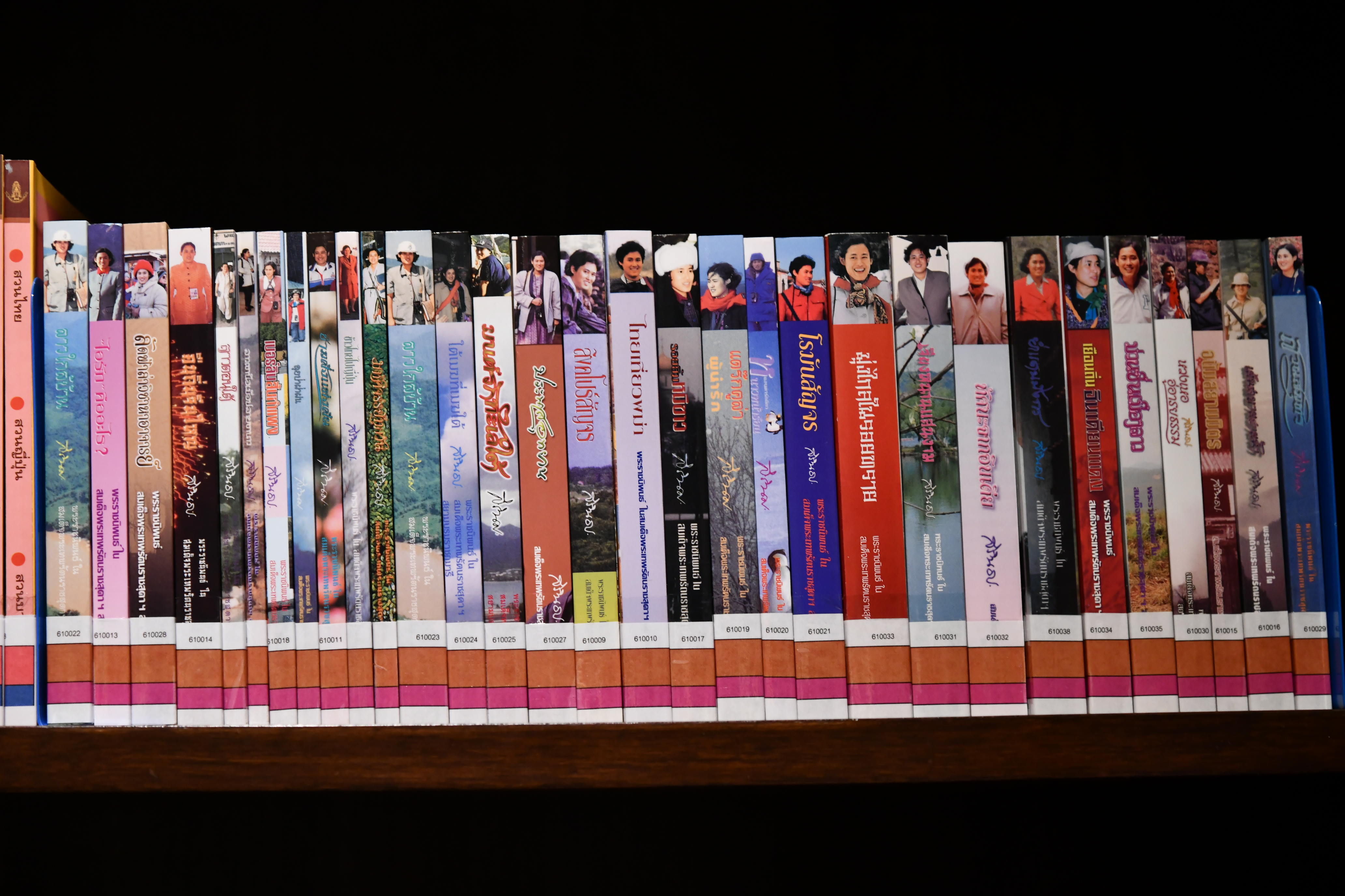 Museum of Thai Education